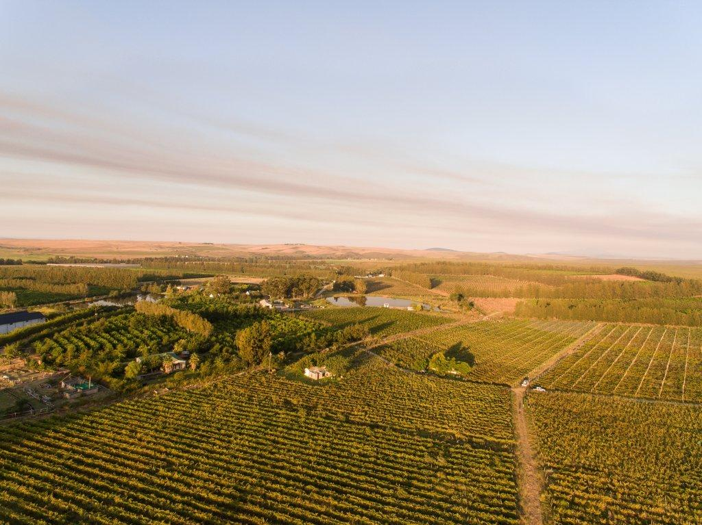 Olivedale Arial